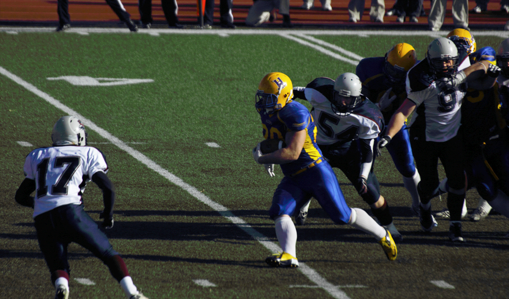 Sunday October 21, 2012 12:00 p.m. Junior Football game in the Prairie Football Conference (PFC). Canadian Junior Football League teams included Regina and Saskatoon. Saskatoon Hilltops were the home team at Griffiths Stadium in Potash Corp Park located on the grounds of the University of Saskatchewan home to the Saskatoon Huskies football team. . The game concluded at Saskatoon Hilltops 37 - 0 Regina Thunder. The Hilltops are the PFC champions acquiring their 15th championship trophy at the 36th PFC Championship game. The champion of the PFC final will receive the hosting rights for the Jostens Cup. The Jostens Cup is played between the Ontario Football Conference OC Champion and PFC Champion Teams with the PFC hosting the 2012 Josten's Cup game. The Jostens Cup winner goes on to play the British Columbia Football Conference Champion for the Canadian Bowl Championship Saturday November 10, 2012 at 1:00 pm with the BCFC hosting the game. This play...begins on the 44 yard line, it is first and ten. Pass of to Hilltop 20 Andre Lalonde, who finds an amazing hole. Regina Thunder 91 Taylor Engel on the Defensive Line is in on the tackle. It becomes first and goal on the four yard line, an amazing 40 yard run. On the next play, Hilltops 12 Graham Unruh Wide Receiver makes a touchdown! the score is now 22-0 in favour of the Hilltops. The covert is good, bringing the scoreboard to 23-0 in the beginning moments of the second half. Hilltops dominate in PFC final Hilltops crowned PFC Champions Toppers thump Regina 37-0 Saskatoon Hilltops PFC champions once again Hilltops steamroll Thunder in PFC final CJFL: Hilltops win PFC final over provincial rivals